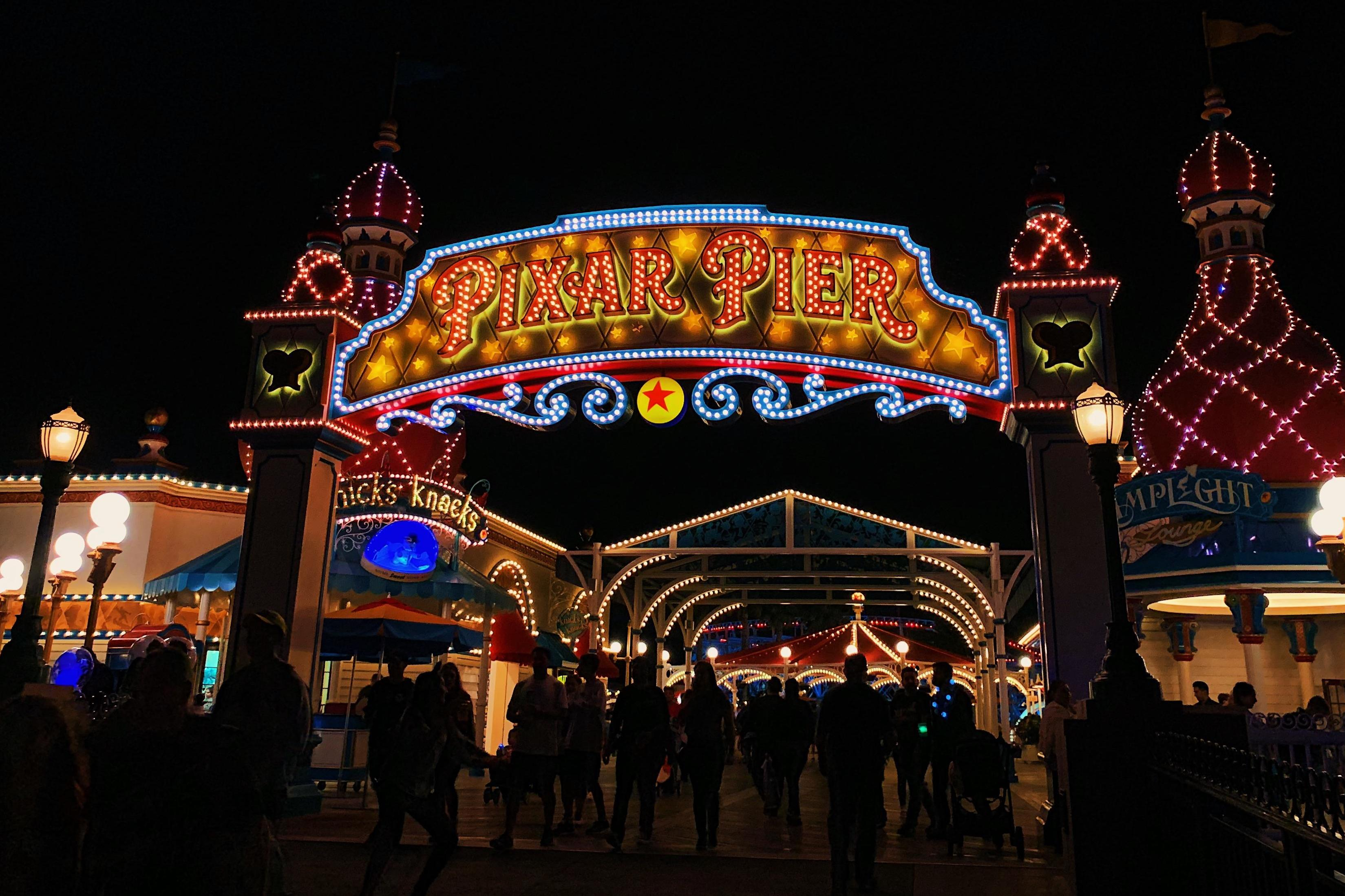 Pixar Pier's marquee at night